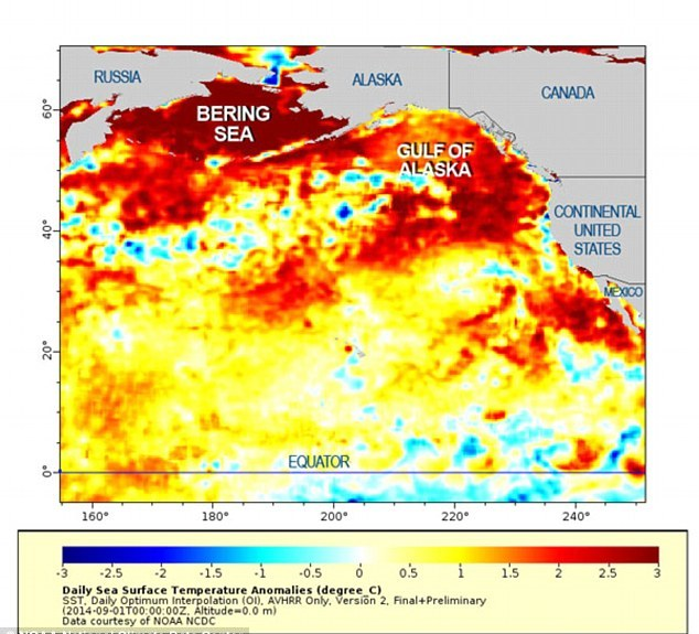 A 'blob' of warm water 2,000 miles across is sitting in the Pacific Ocean (shown in image). It has been present since 2013. Since June 2015 it has extended from Alaska to Mexico. See The Blob for more details. Daily Sea Surface Temperature Anomalies (Degree Centigrade). SST Daily Optimum Interpolation (OI), AVHRR Only, Version 2, Final + Preliminary, (2014-09-01, T00:00:00Z, Alitutude = 0.0 m.) Data courtesy of NOAA, NCDC.